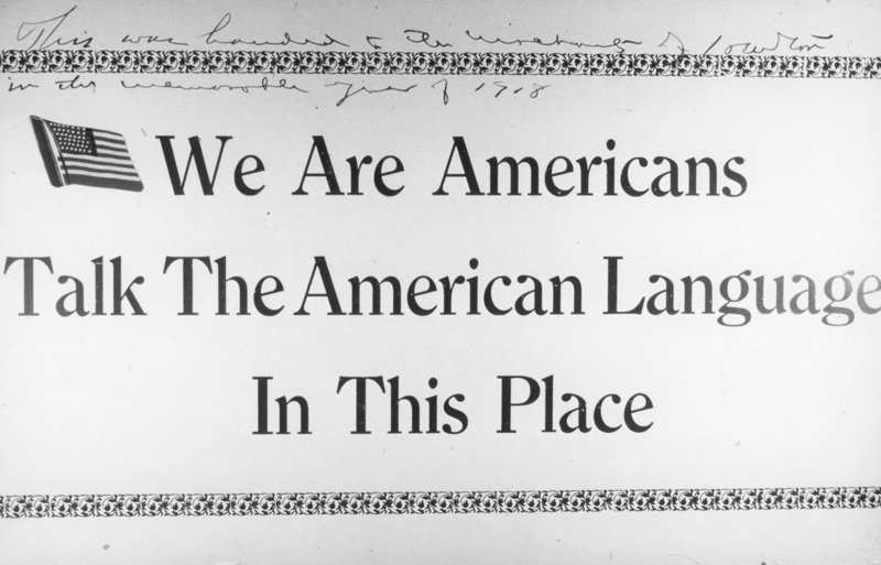 2015-0055m Description: Patriotic propaganda Date: ca. 1918 Location: MLA filing: World War I -Miscellaneous Original Size: 18 x 12 cm Source: James Juhnke Photographer: Note: Print copied from slide belonging to James Juhnke, 1995